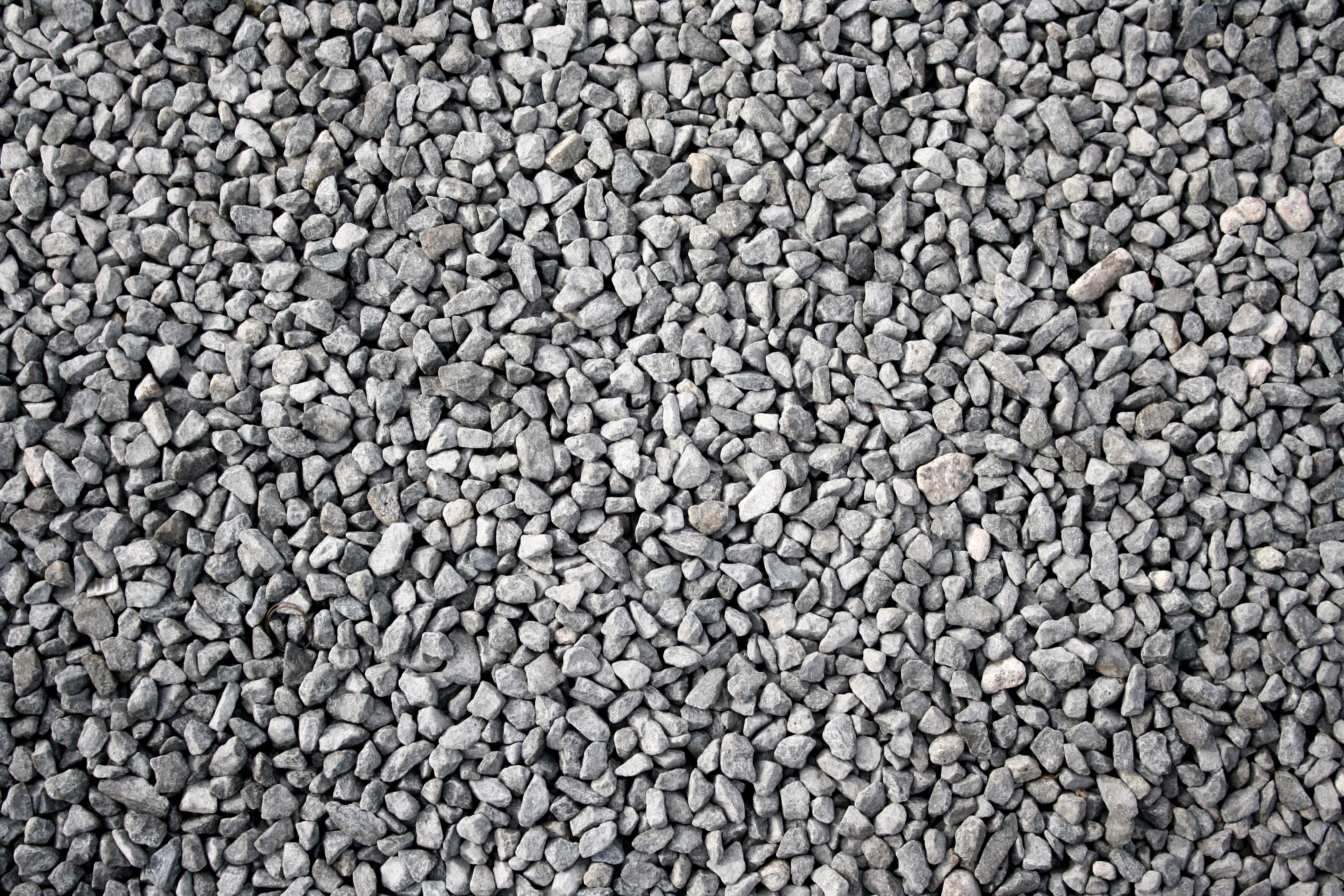 Grey fine gravel